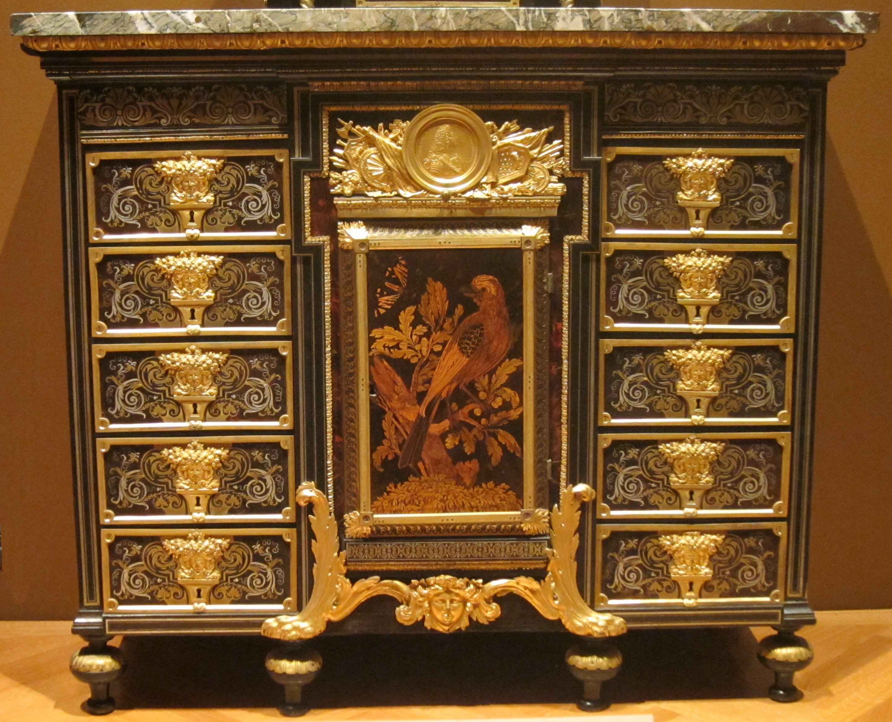 Cabinet, c. 1690, ebony, metal and tortoise shell, André-Charles Boulle, Cleveland Museum of Art